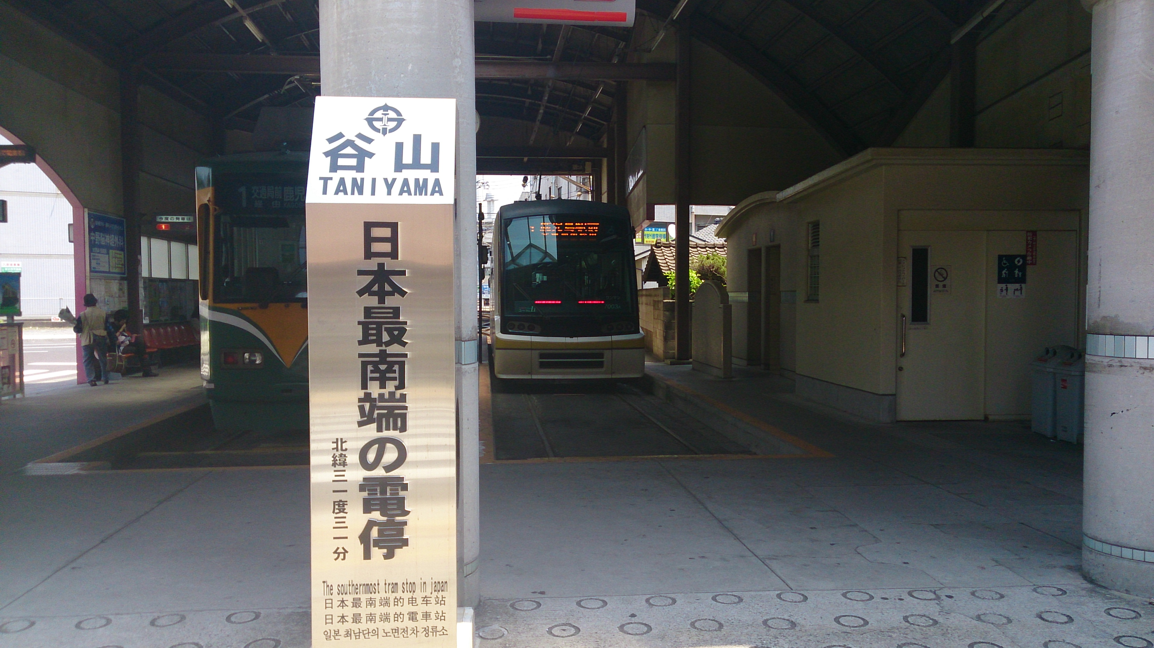 "The southernmost tram stop in Japan" sign at Taniyama Station of Kagoshima City Tram